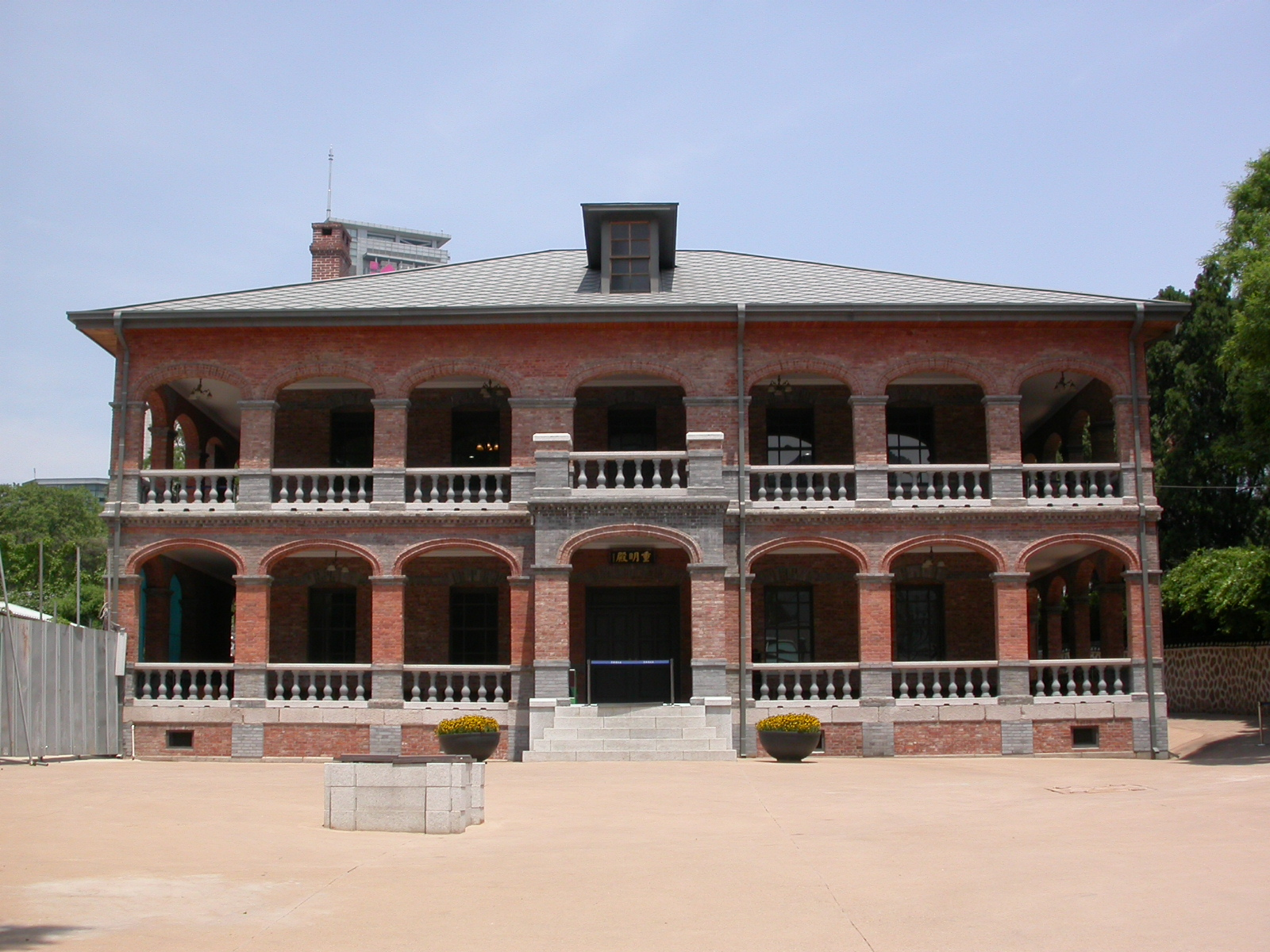 Jungmyeongjeon